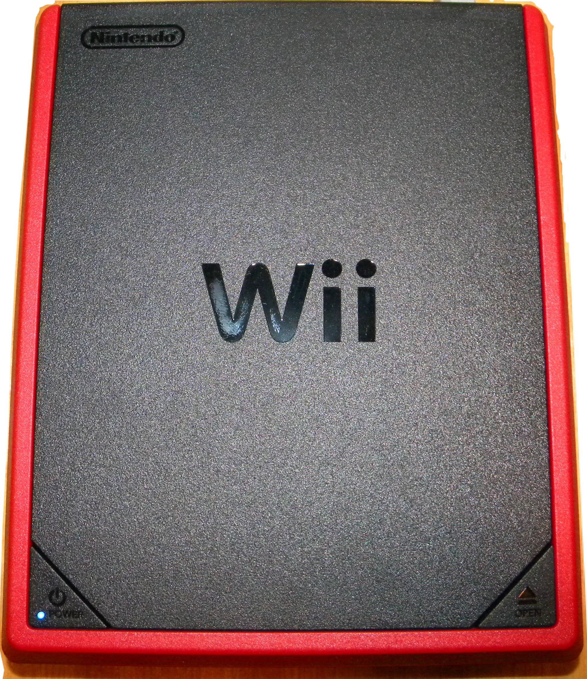 Picture of the Wii mini.